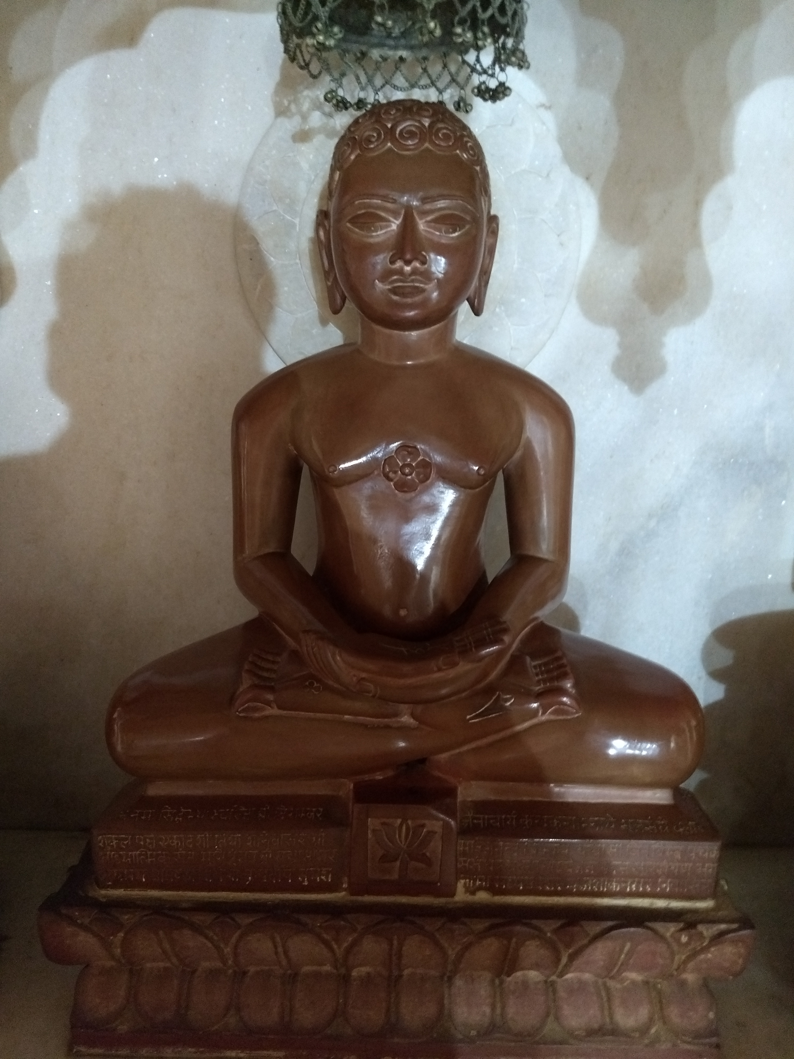 Jain statues in Anwa, Rajasthan